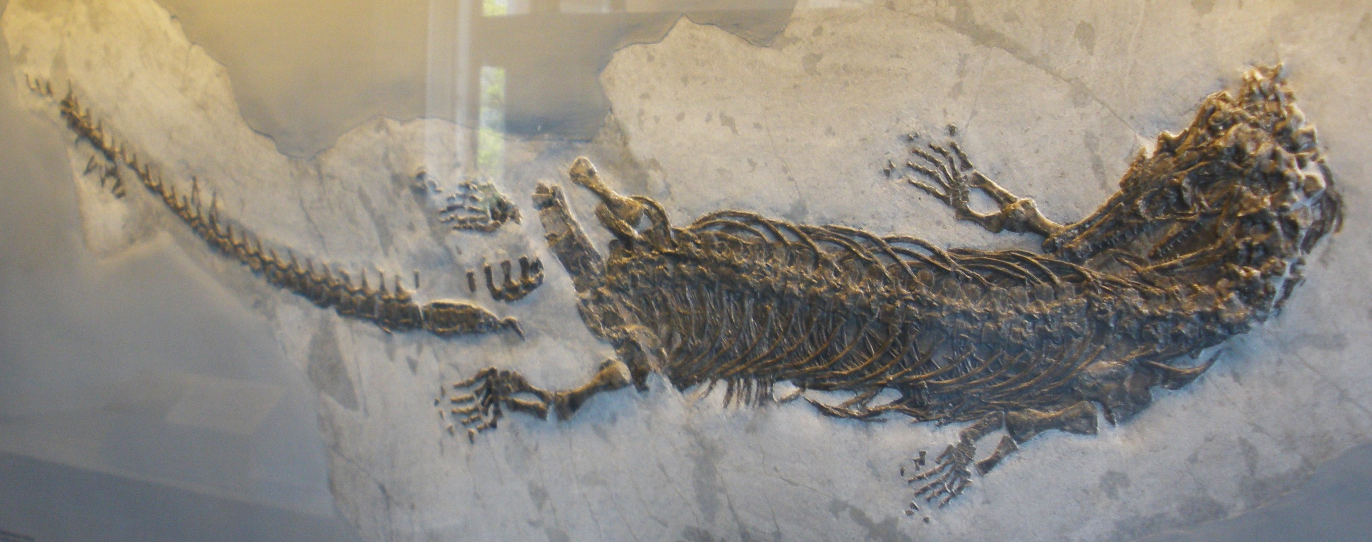 fossil Askeptosaurus